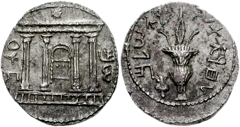 JUDAEA, Bar Kochba Revolt. 132-135 CE. AR Sela – Tetradrachm (28mm, 14.07 g, 11h). Undated issue (year 3 - 134/5 CE). Temple facade, the Ark of the Covenant within; star above / Lulav with etrog. Mildenberg 85.12 (O127/R44´); Meshorer 233; Hendin 711. Near EF, toned, light deposits.